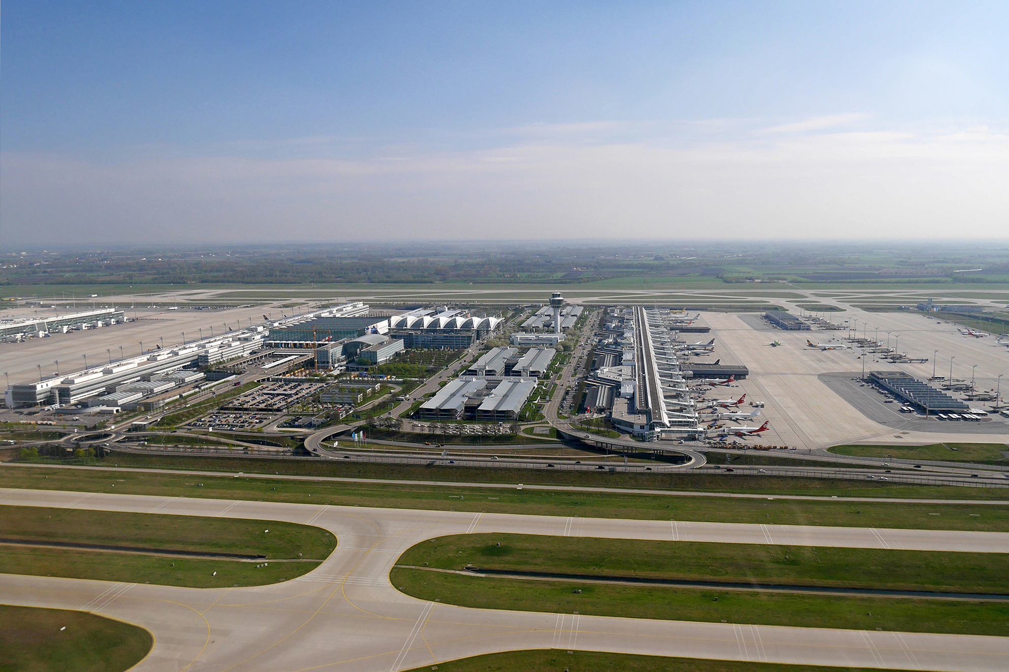 Aerial view of Munich Airport with Terminal 1, Terminal 2 and Munich Airport Center